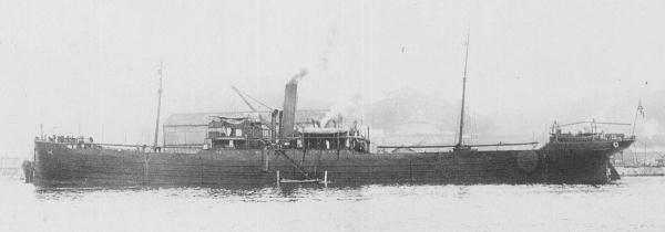 IJN transport TAKASAKI, probably at Yokosuka Naval Base.